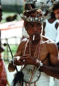 Man in traditional clothing in Ermera/East Timor